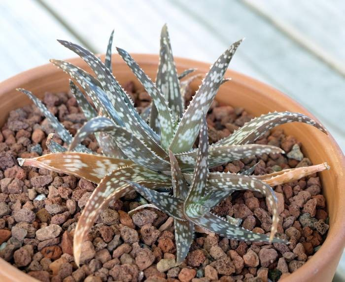 Image of Aloe Rauhii grown in the San Francisco/Bay Area of California. This image is featured on my site